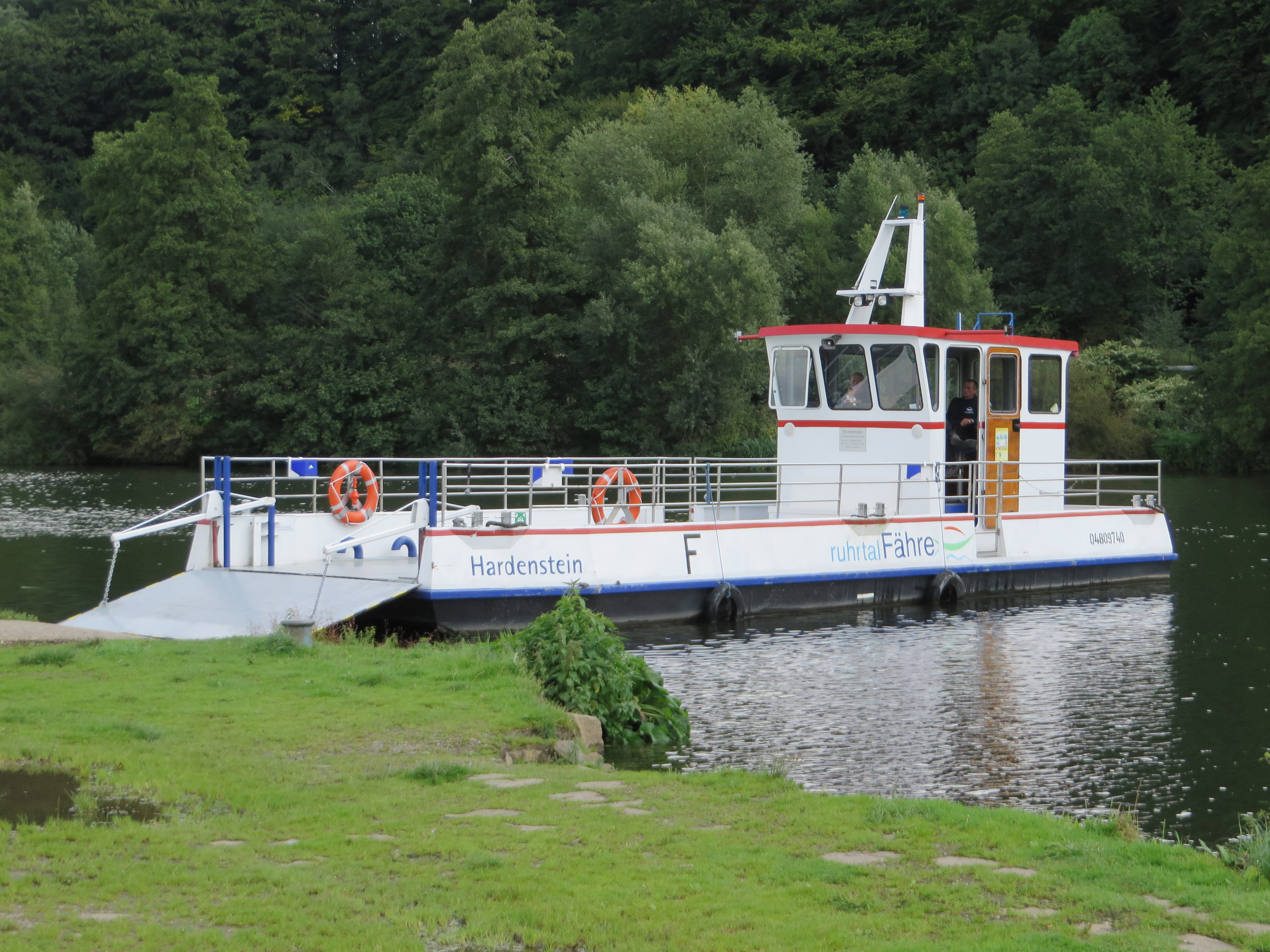 Ferry Fähre Hardenstein, also Ruhrtalfähre, in Witten, GermanyEsperanto: Pramo Fähre Hardenstein, ankaŭ Ruhrtalfähre, en Witten, Germanio